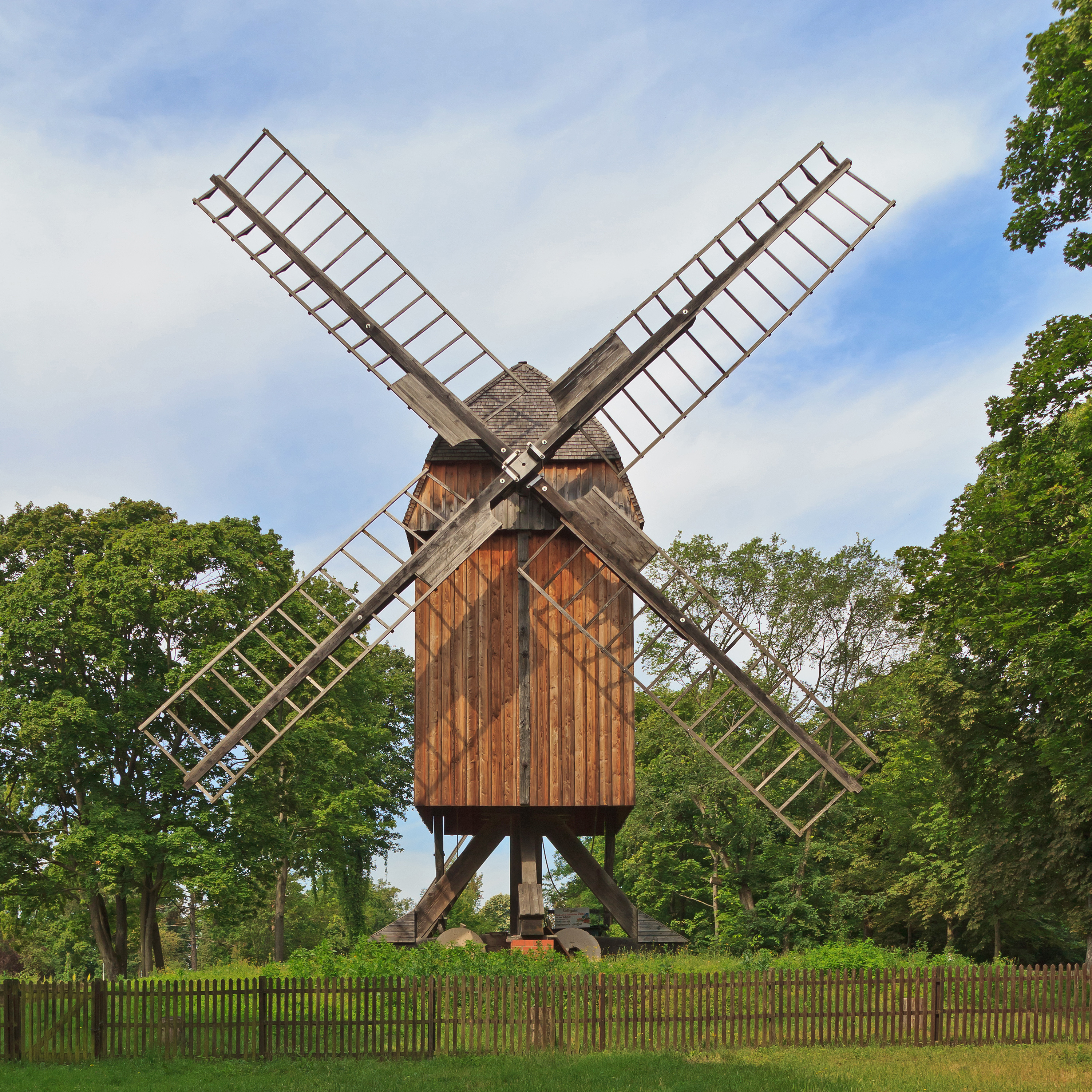 Windmill in Gatow, Berlin, Germany